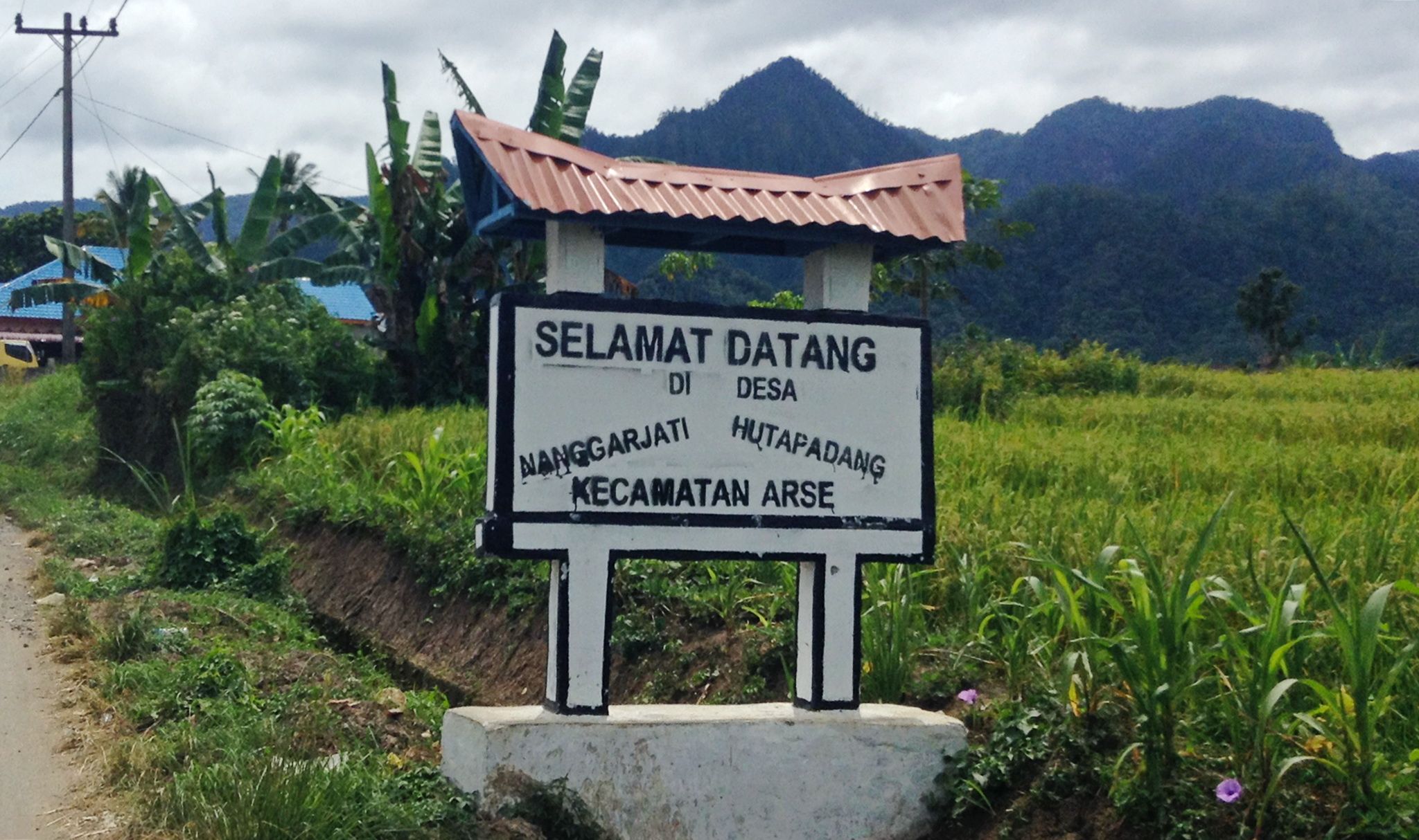 Welcome Gate to Nanggar Jati Huta Padang, Arse, Tapanuli Selatan